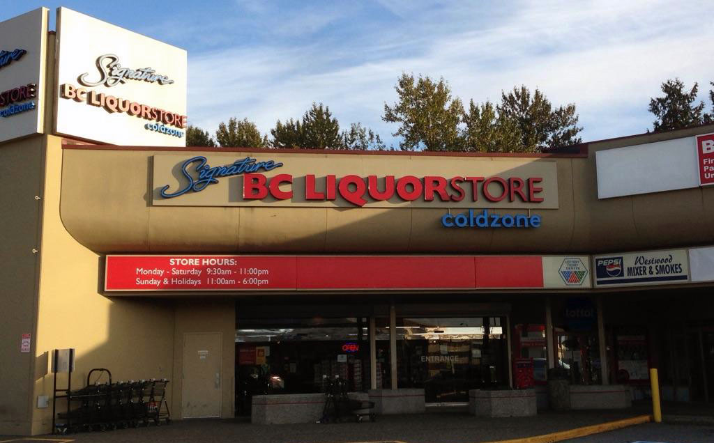 Exterior of the BC Signature Liquor Store at Westwood Plaza in Port Coquitlam, BC